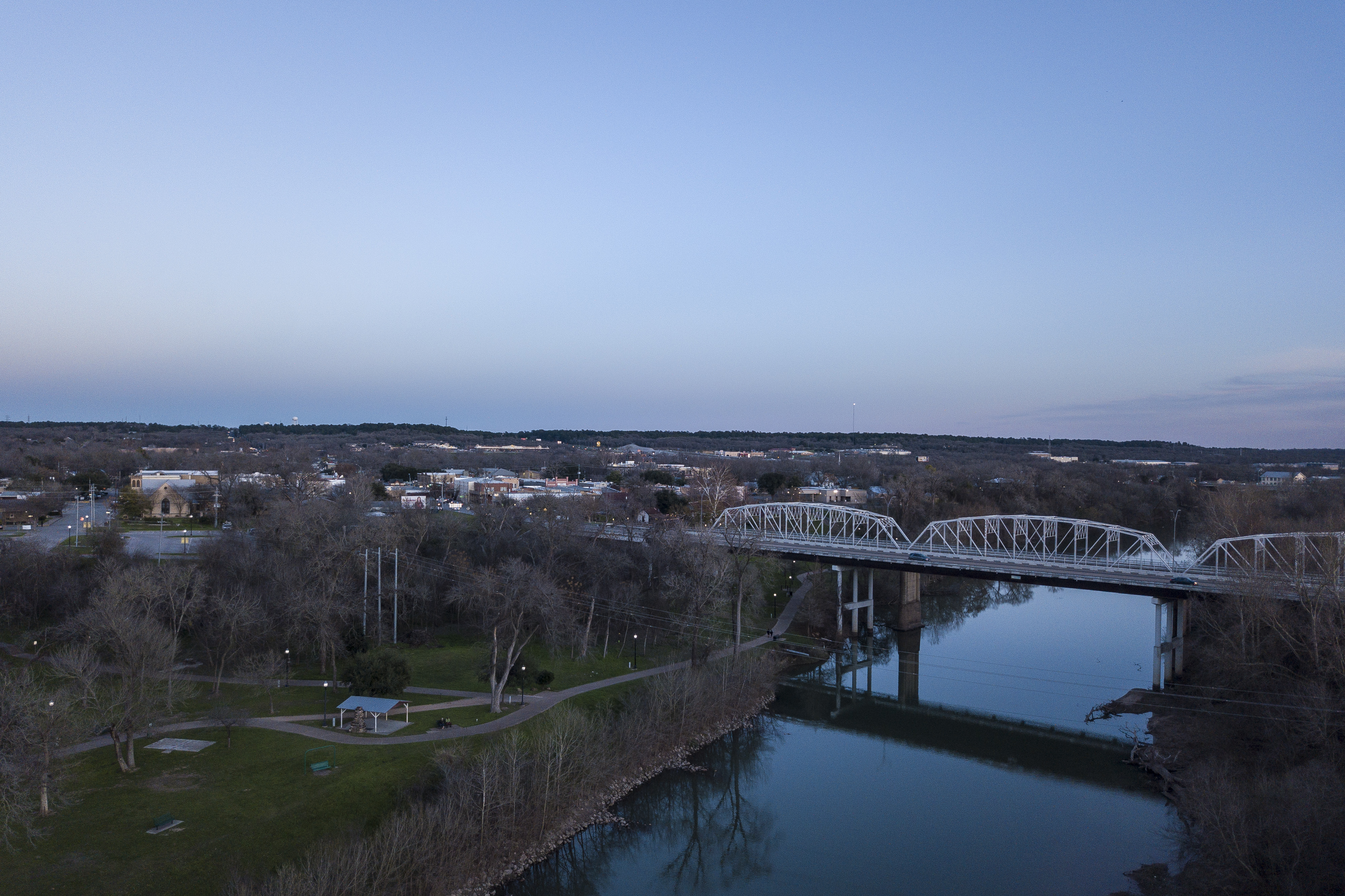 The Pedestrian bridge across the Colorado River at Bastrop with one of the town's public parks.